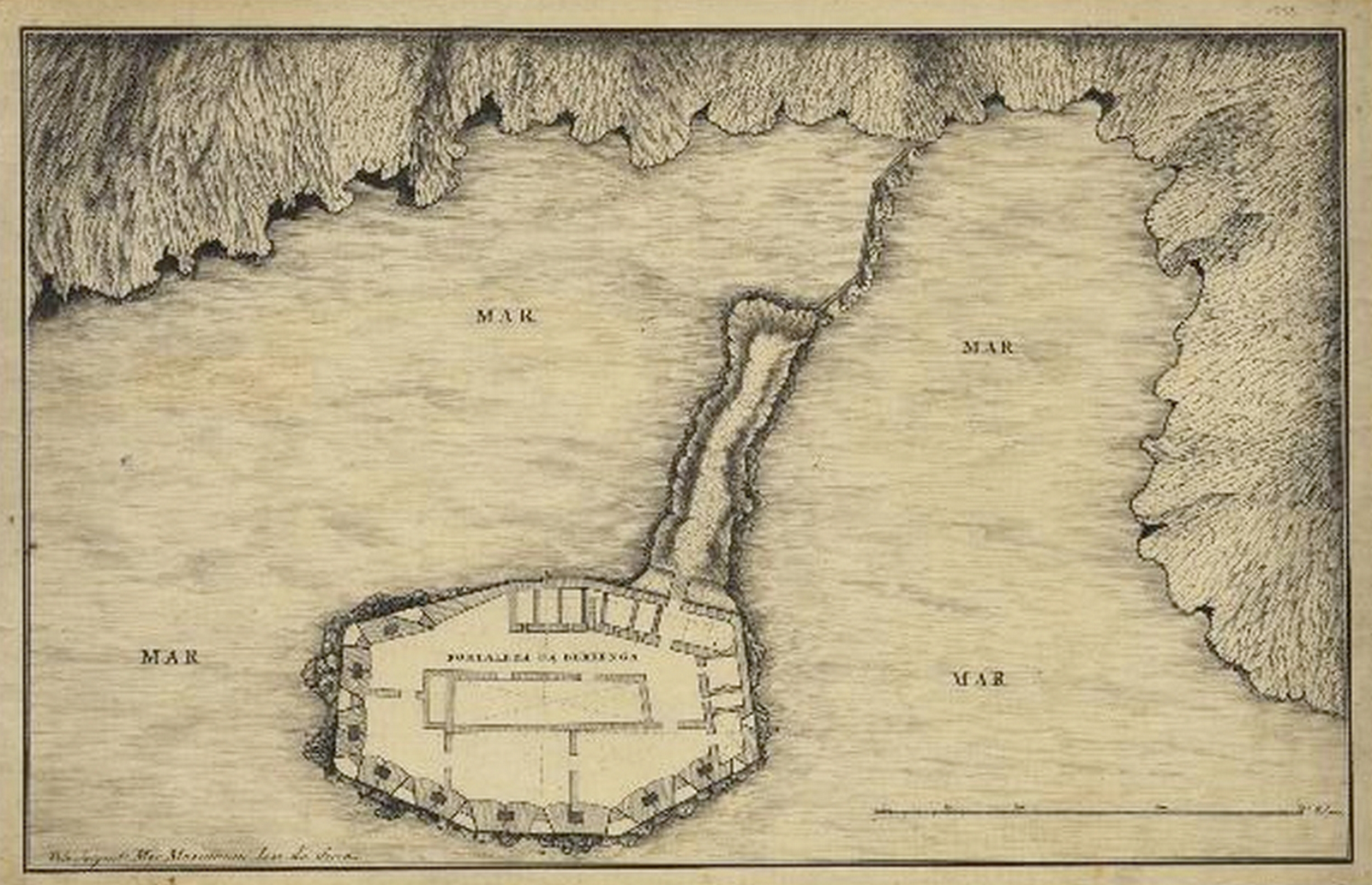 Old map of the forteress of Berlengas